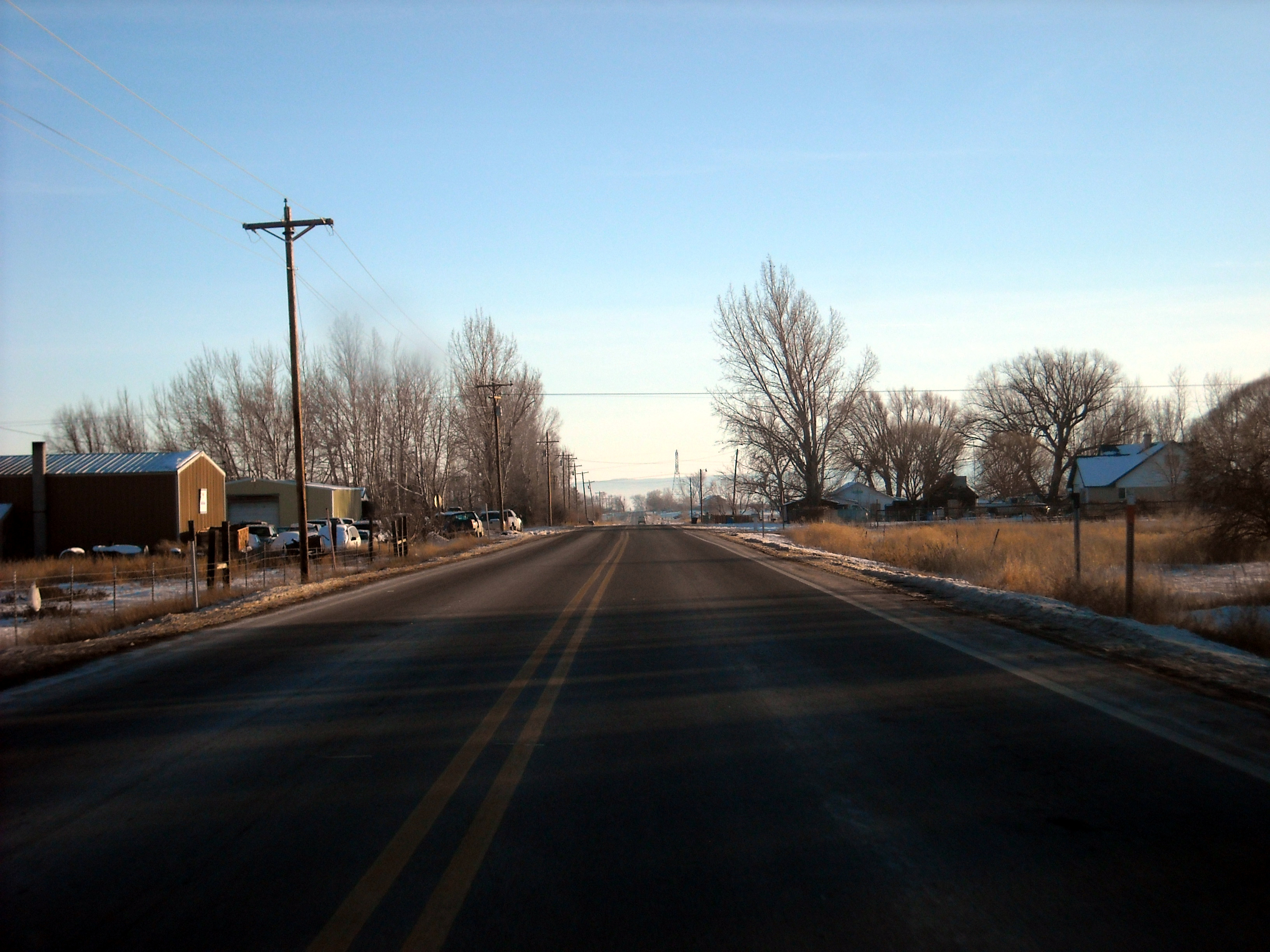 Looking south on Utah State Route 87 at the intersection of Center Street/1480 South in the incorporated community of Upalco, Utah (located about 7 miles southeast of Altamont), Dec 2008